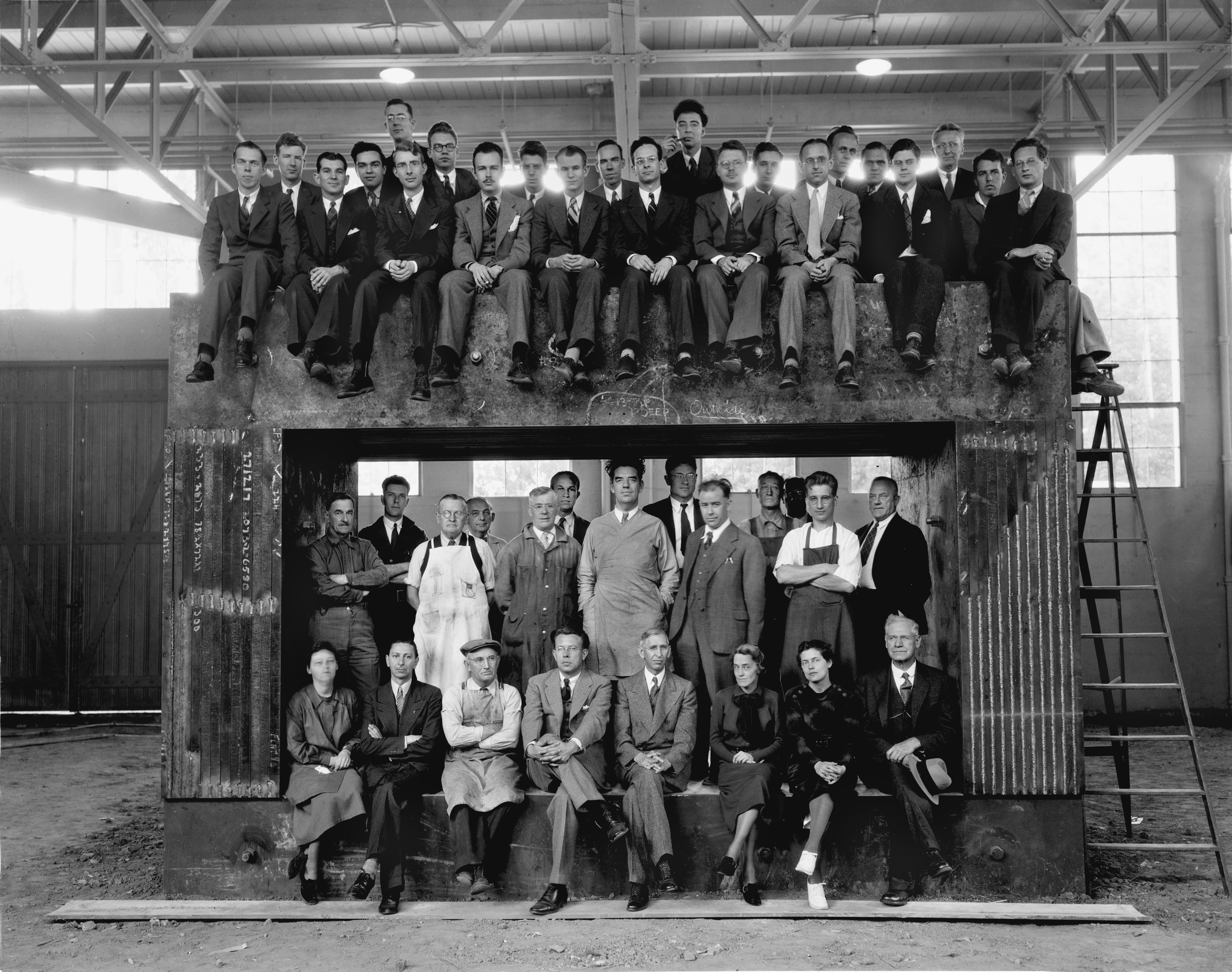 Archival photograph of the University of California Radiation Laboratory staff on the magnet yoke used to construct the 60-inch cyclotron. Taken around 1938. E.O. Lawrence won his Nobel prize for inventing the cyclotron in 1939. Top from left to right: Philip H. Abelson, Arthur H. Snell, Paul C. Aebersold, Martin D. Kamen, Luis W. Alvarez, Robert Cornog, (rear), John G. Backus, F.N.D. Kurie, Sam J. Simmons, Edwin M. McMillan, William M. Brobeck, Alex S. Langsdorf, J. Robert Oppenheimer, E.M. Lyman, Wilfred B. Mann, John J. Livingood, Joseph G. Hamilton, Eugene S. Viez, Robert R. Wilson, Donald Cooksey, Wilfred B. Mann, Robert Serber. Below back row: Sixth from left, John H. Lawrence; eighth from left, David H. Slone; ninth from left, William W. Salisbury. Below front row: Fourth and fifth from left, Ernest O. Lawrence and Robert T. Birge.